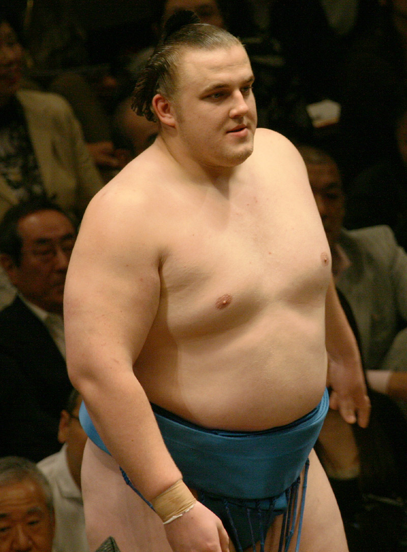 Baruto (Onoe stable) during the May 2008 tournament.